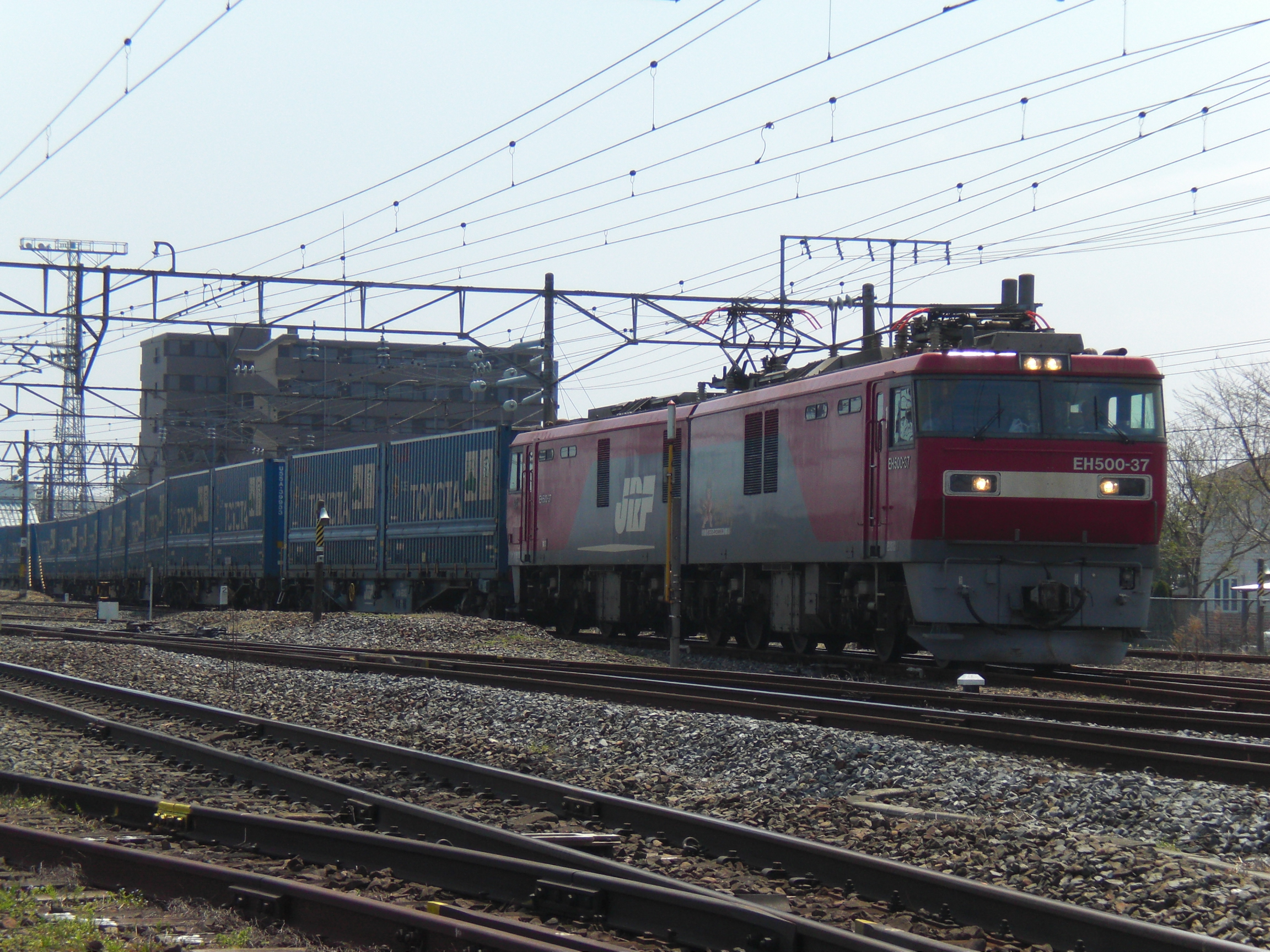 EH500-37